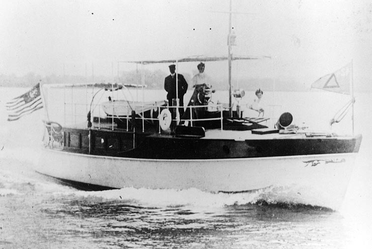 The motorboat Mary, scheduled to serve as the United States Navy patrol vessel USS Mary (SP-462) but never taken over by the Navy